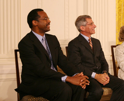 Dr. Benjamin Carson, left, seated with Dr. Anthony S. Fauci, listens Thursday, June 19, 2008, as he is announced as a recipient of the 2008 Presidential Medal of Freedom, at ceremonies in the East Room of the White House.